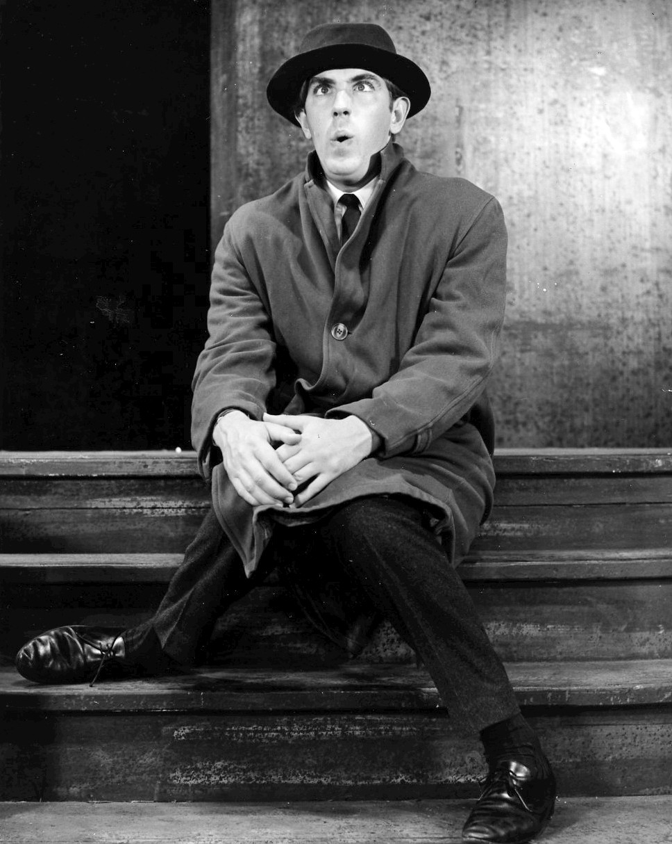 Photo of comedian Peter Cook in the revue Beyond the Fringe. The revue was first performed in the UK; the original cast came to Broadway with it from 1962 to 1964.